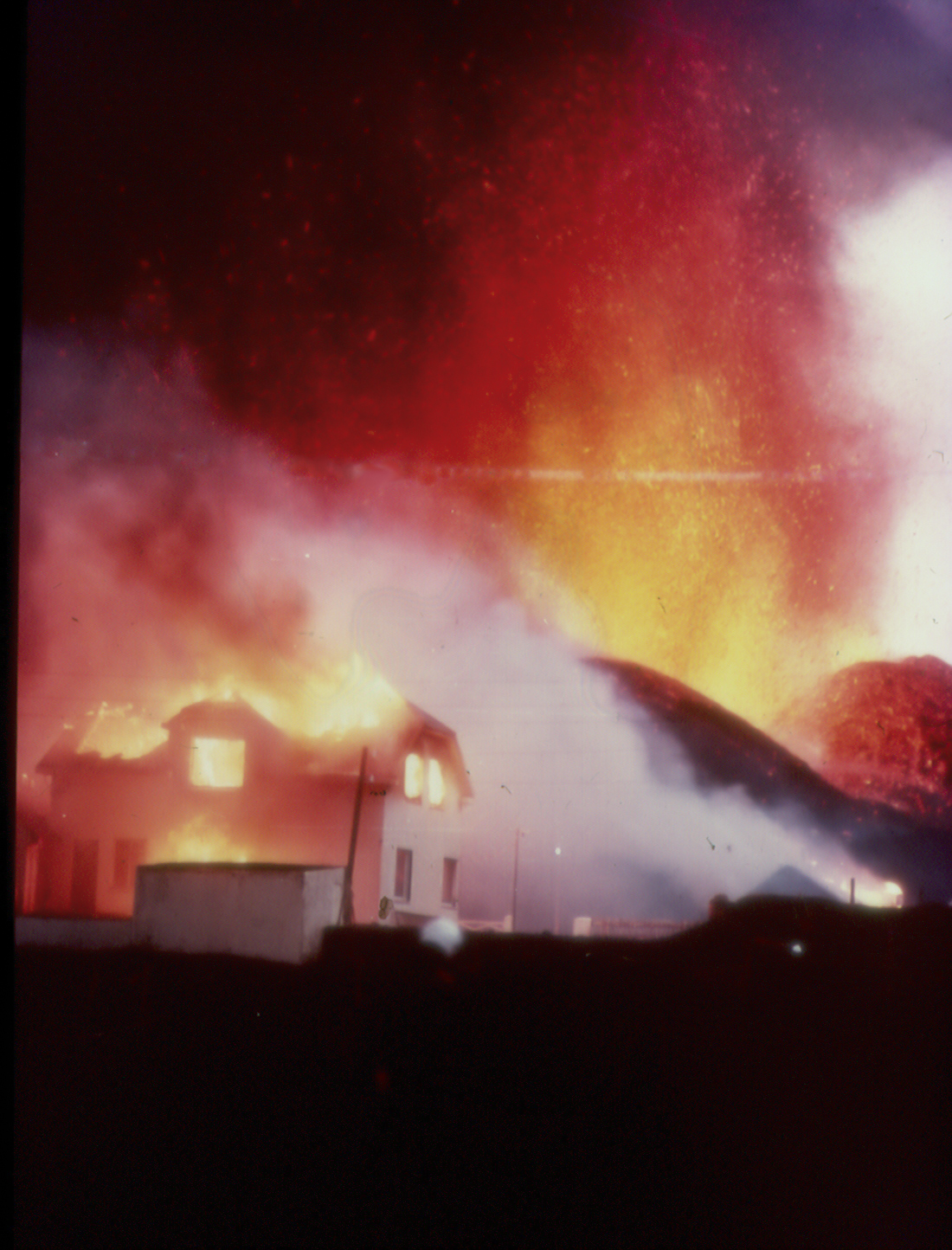 Heimey volcanic eruption in 1973 been going through old family albums this photo is after my grandfather Óskar Elías Björnsson On January the 23 of 1973 at around 1 a.m. in the morning, a volcanic eruption of the mountain Eldfell began on Heimaey. The ground on Heimaey started to quake and clefts[clarification needed] began to form. The clefts grew to 1600 meters in length, and soon lava began to erupt. Lava sprayed into the air from fissures in the ground. Volcanic ash was blown out to sea. Later, the situation deteriorated. When the fissures closed, the eruption converted to a concentrated lava flow that headed toward the harbour. The winds changed, and half a million cubic metres of ash were blown on to the town. During the night, the 5000 inhabitants of the island were evacuated, mostly by fishing boats, as almost the entire fishing fleet was in dock.